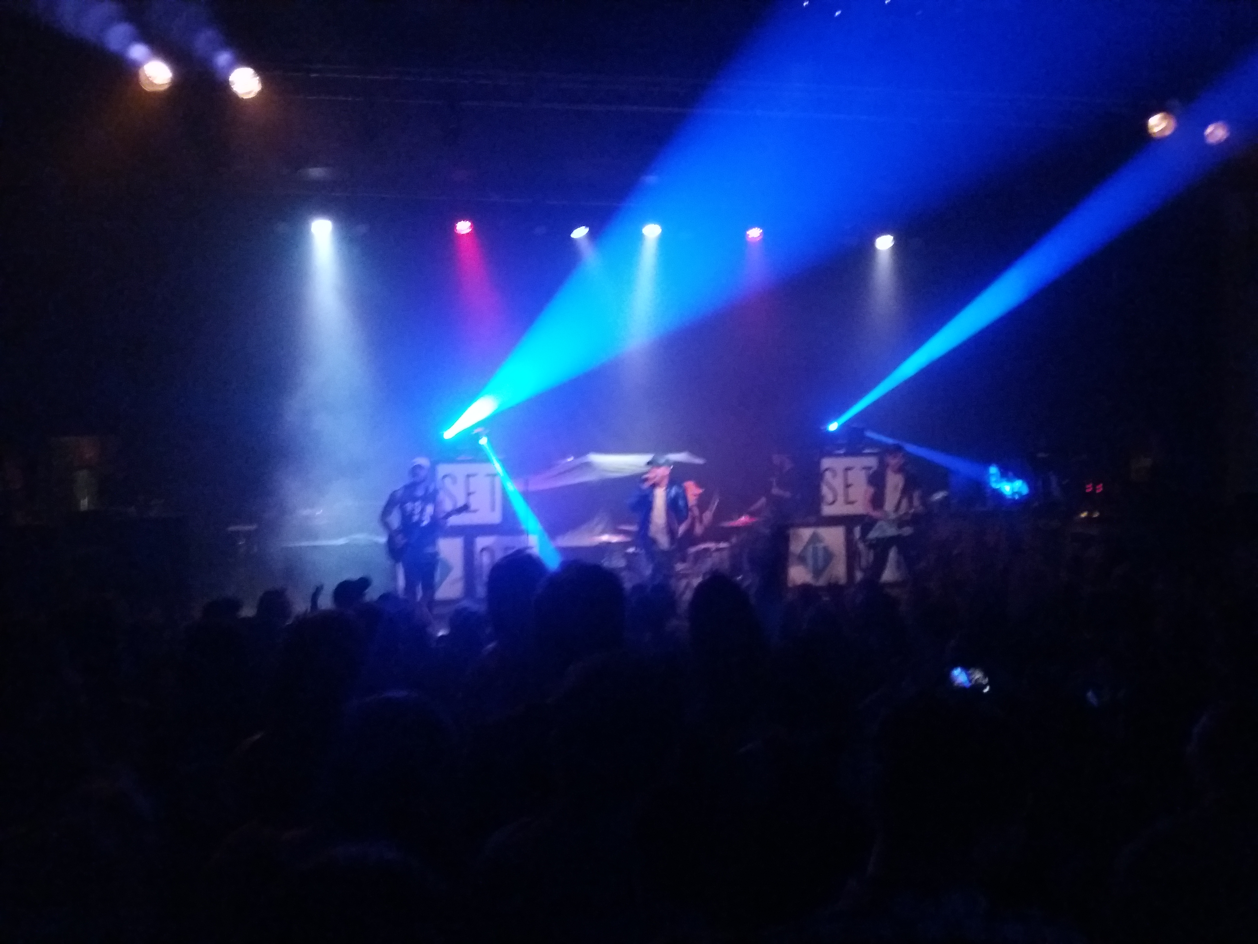 Set if Off playing at the Granada Theater in Lawrence, Kansas on 4-8-17